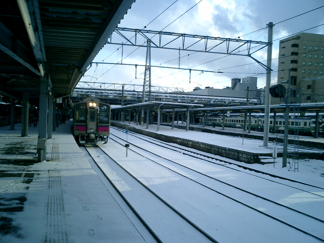 Platform of Akita Station